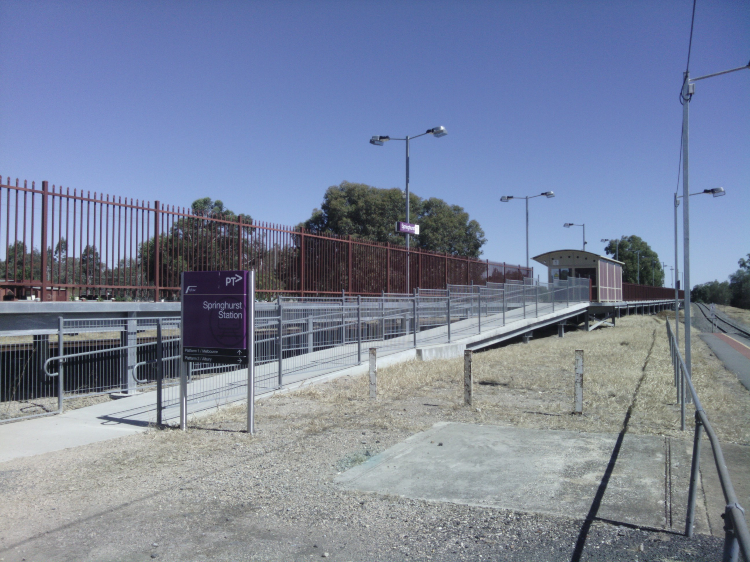 Springhurst railway station, Platform 1.